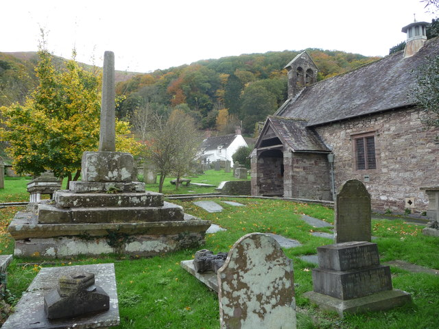 Saint Faith's church and cross, Llanfoist